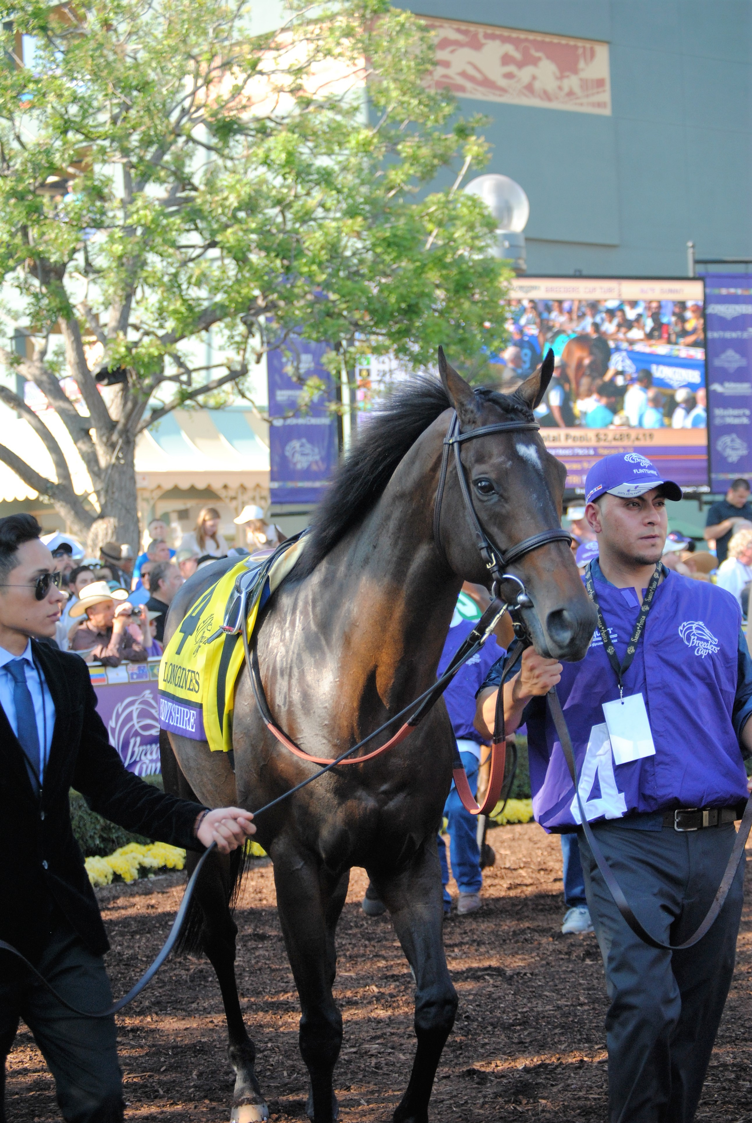 Flintshire ready for the Turf